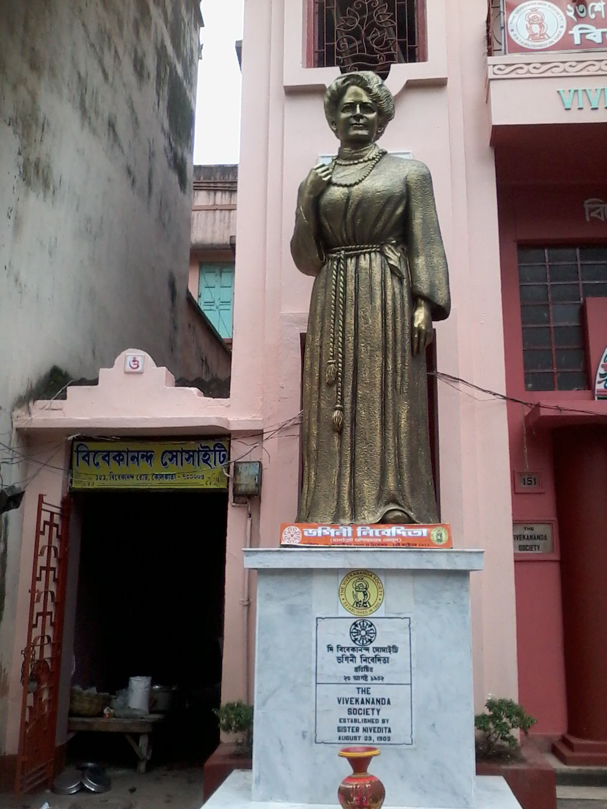 In front of Vivekananda Society, Kolkata, which was established by Sister Nivedita herself in 1902 AD.